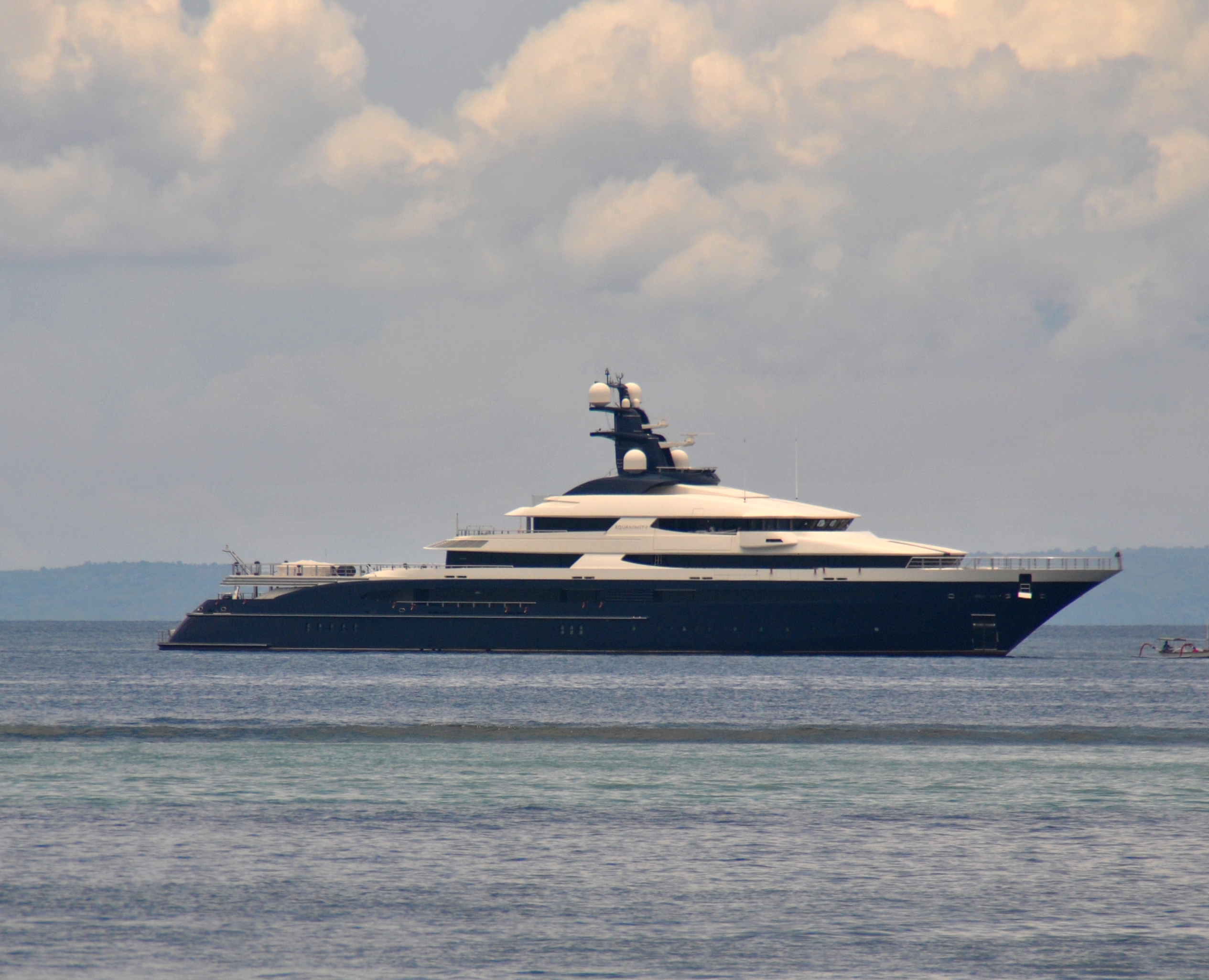 Equanimity, the yacht owned by Malaysian billionaire Jho Low, as of 15 March 2018, three weeks after it was seized by Indonesian police and US Department of Justice as part of 1Malaysia Development Berhad money laundering scandal. That yacht is allegedly bought using 1Malaysia Development Berhad funds. It worths 250 million USD.